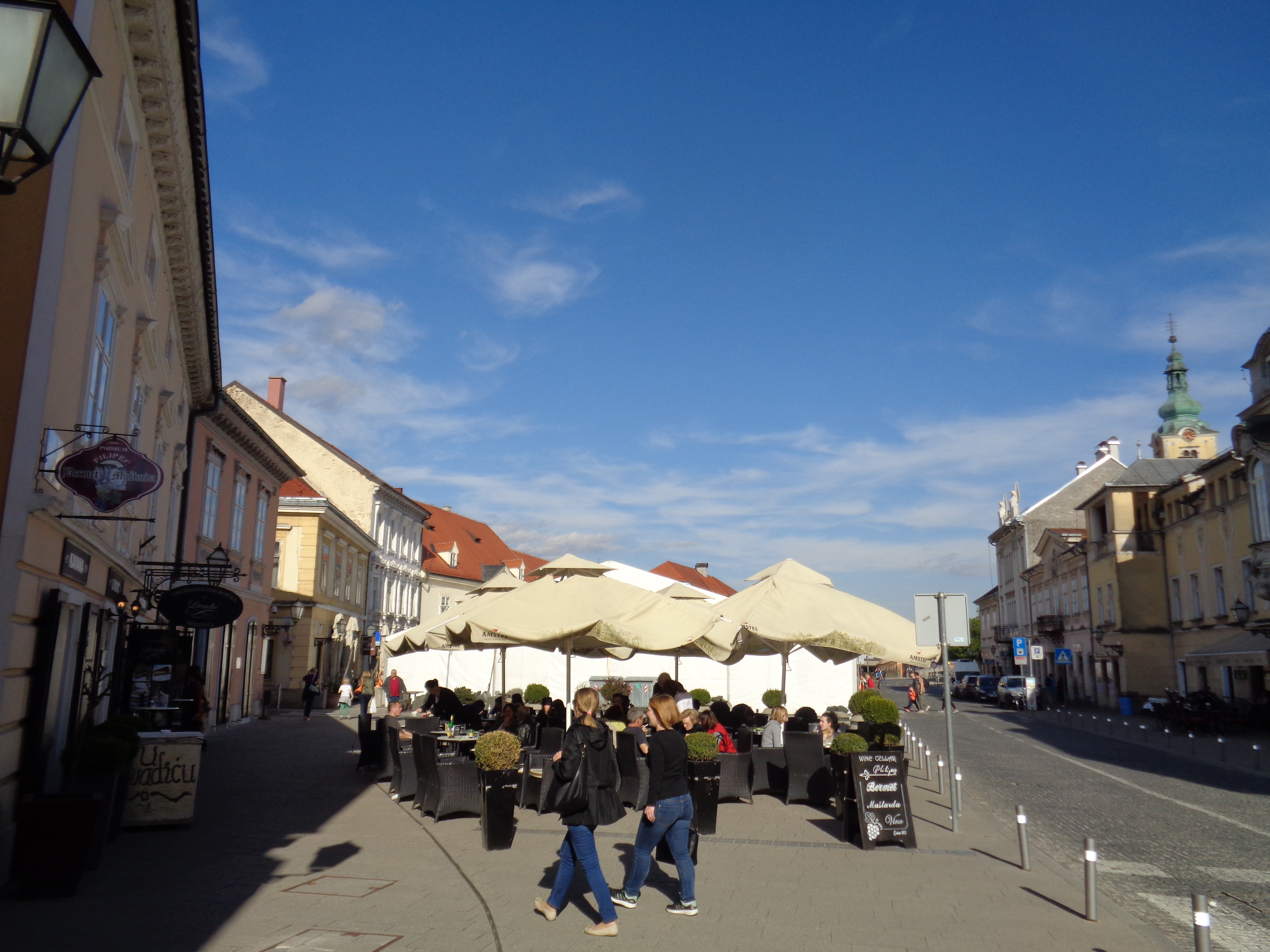 Samobor, Zagreb County, Croatia - town centre